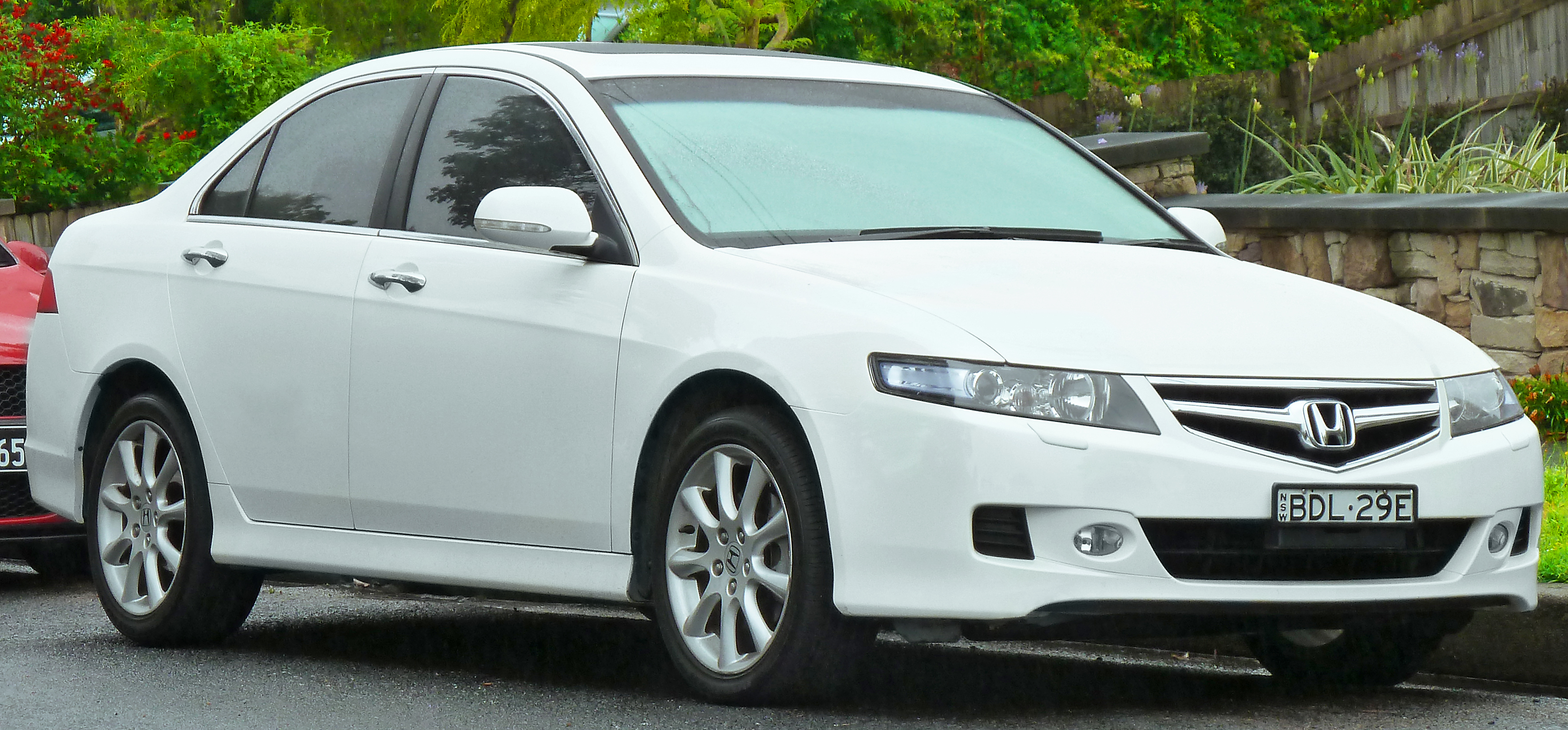 2007 Honda Accord Euro Luxury sedan. Photographed in Roseville, New South Wales, Australia.